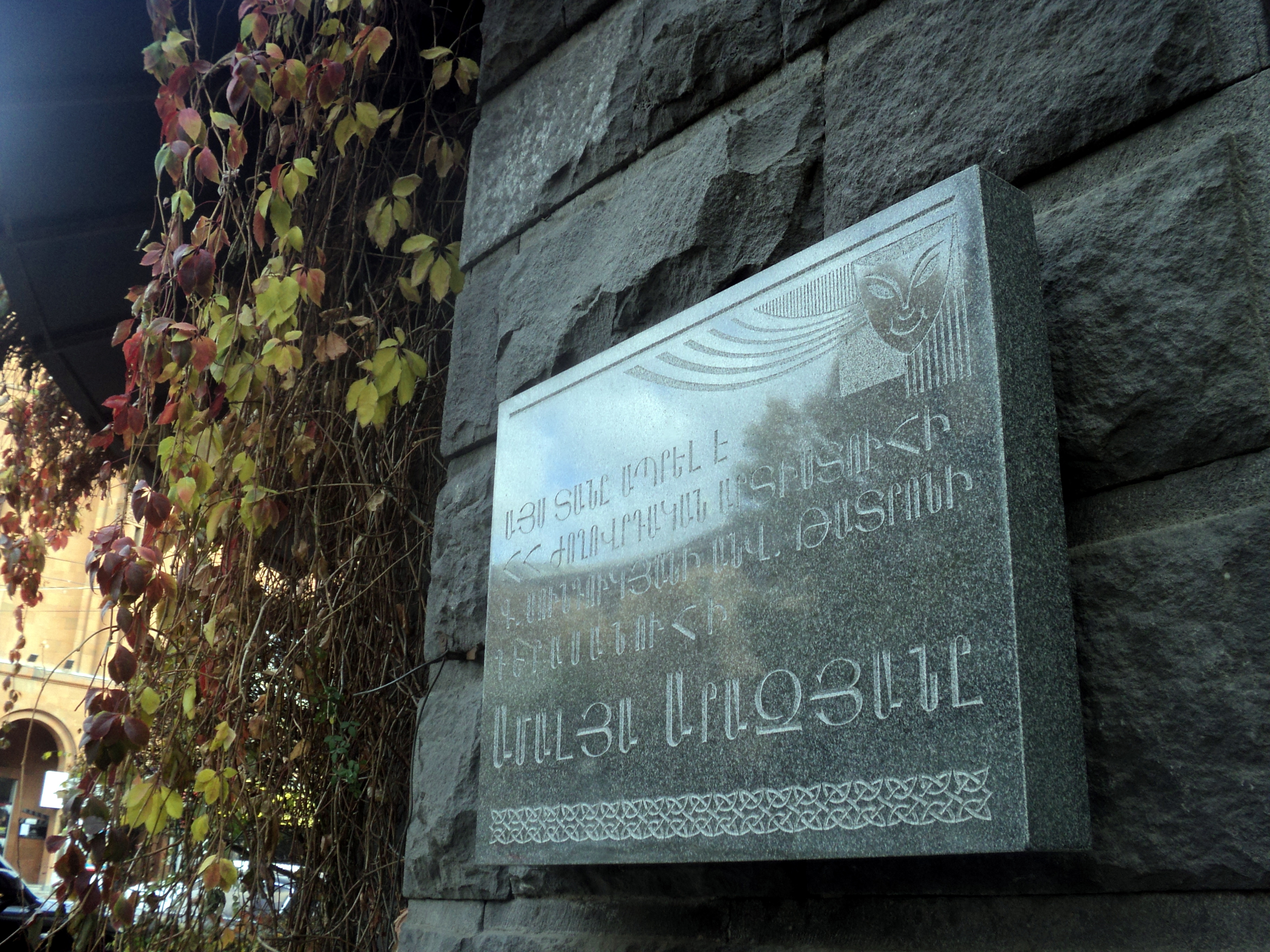 Amalya Arazyan's plaque in Yerevan